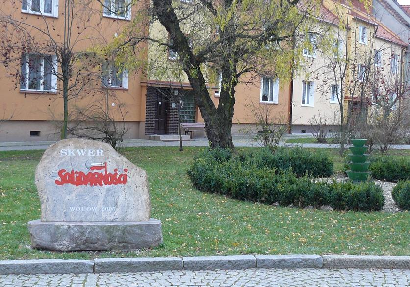 Solidarity Park in Wolow PL